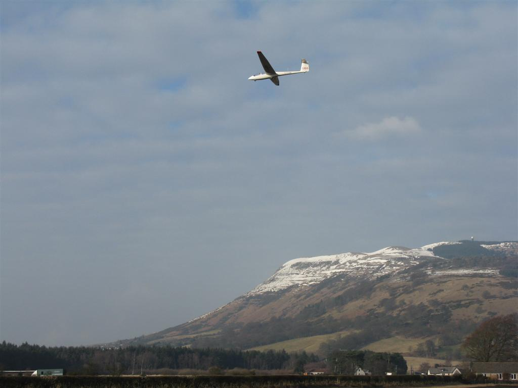 Coming in to land An ASK21 glider on approach to the airfield of the Scottish Gliding Union at Portmoak, as seen from Lochend Farm Shop and Cafe, with Bishop Hill and Scotlandwell beyond.